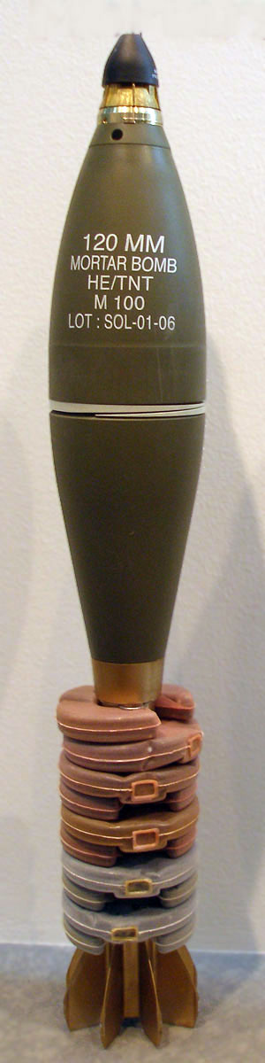 120mm mortar bomb HE-TNT